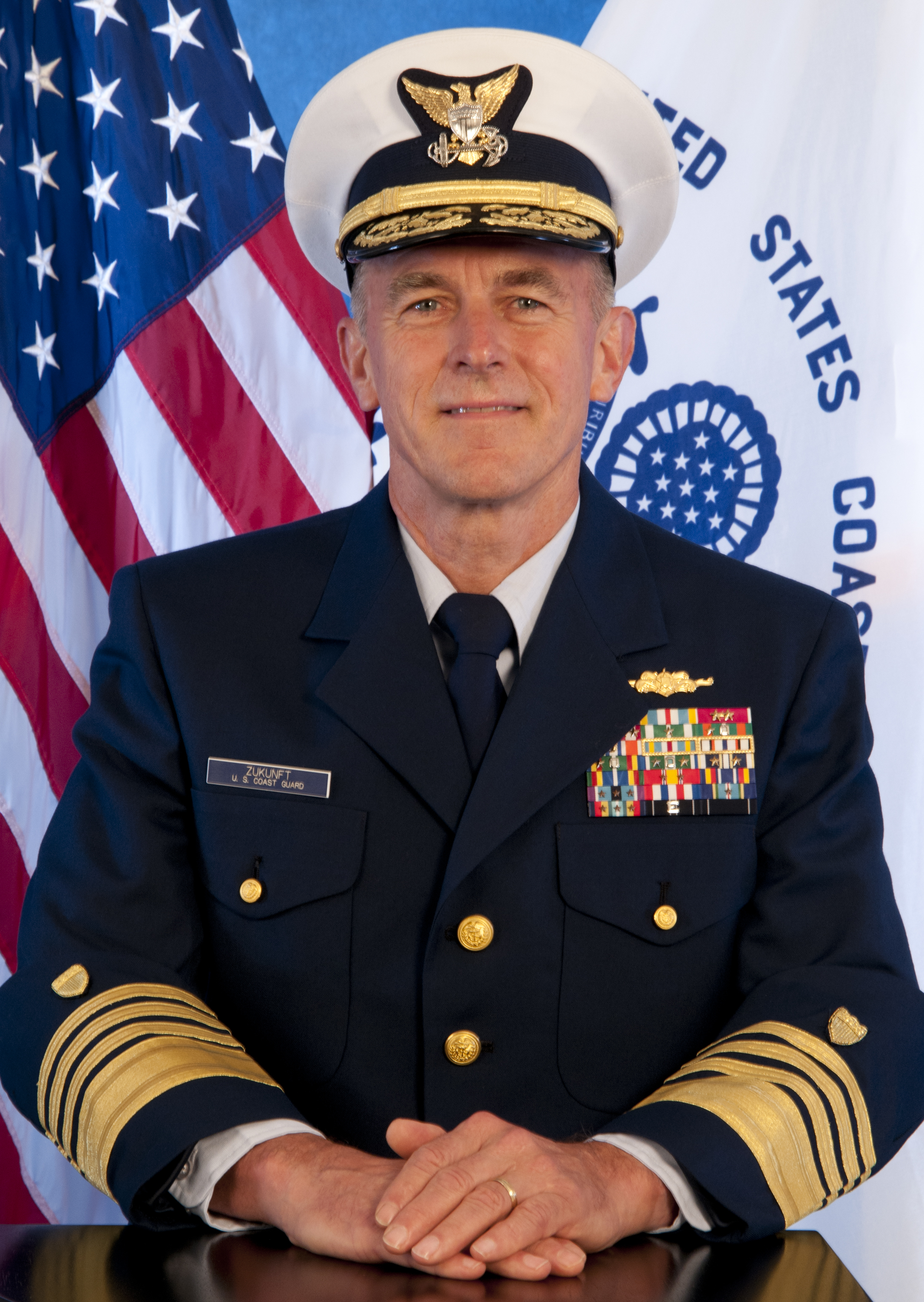 Admiral Paul F. Zukunft, USCG25th Commandant of the U.S. Coast Guard